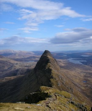 Meall Meadhonach, the central summit of Suilven, seen from the higher western summit, Caisteal Liath. Taken by User:Grinner on 2nd April 2005.